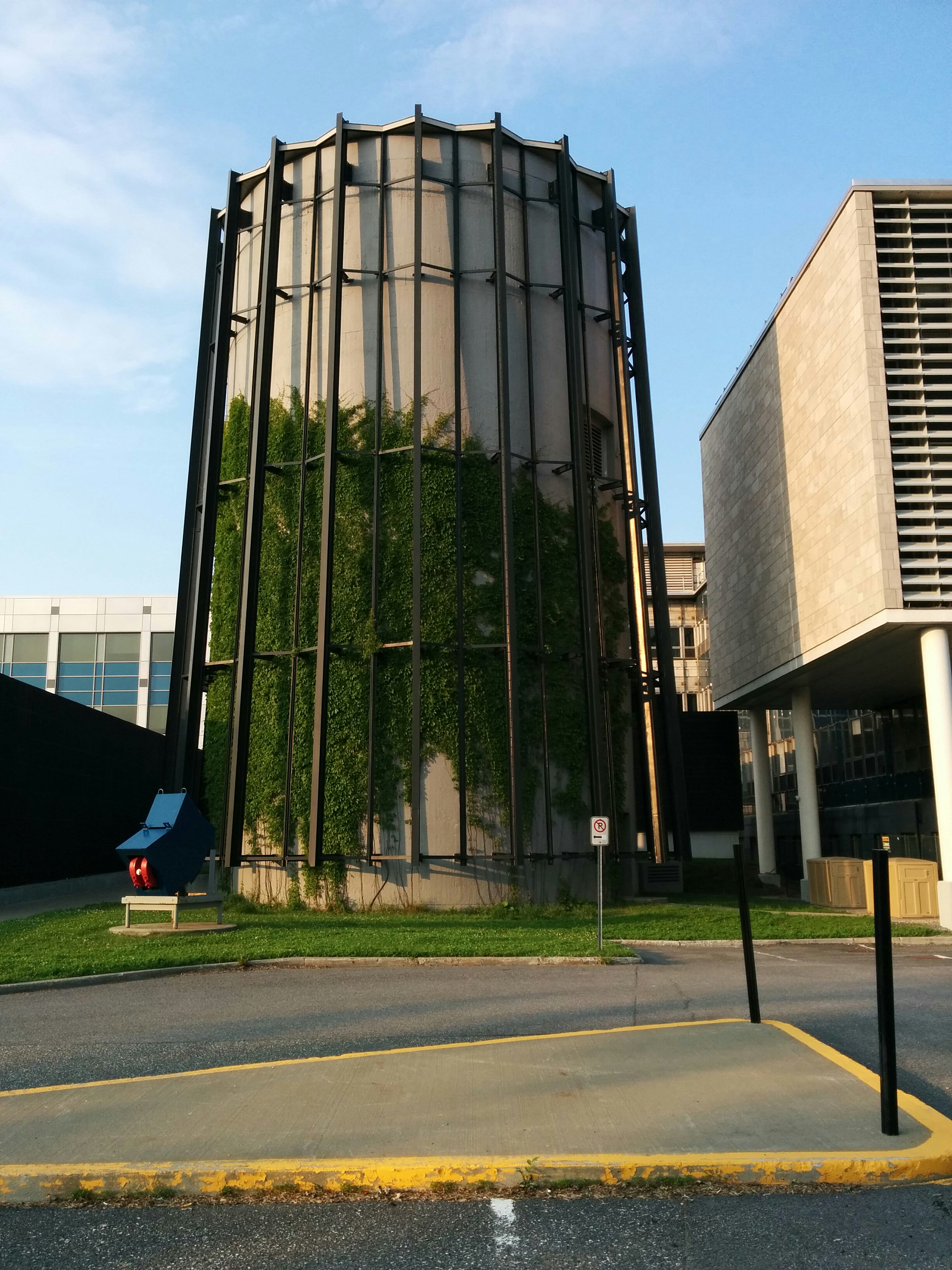 Colosse de Québec: data center built in a former Van de Graaff generator building located on Université Laval campus in Québec City.